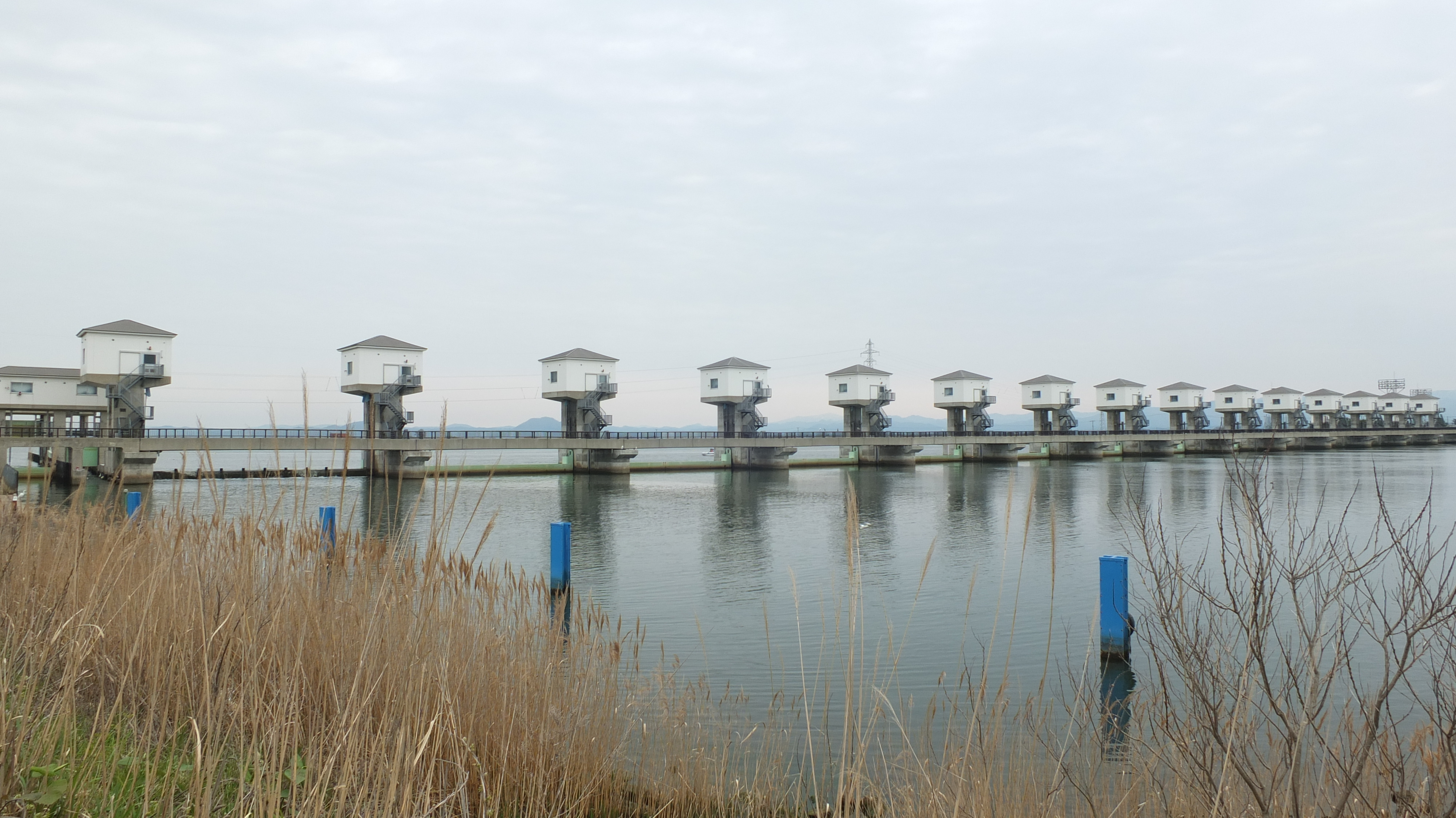 Hatirougata Boutyou Suimon (tide gate) shuts Babame river at Katagami city and Oga city, Akita prefecture, Japan.